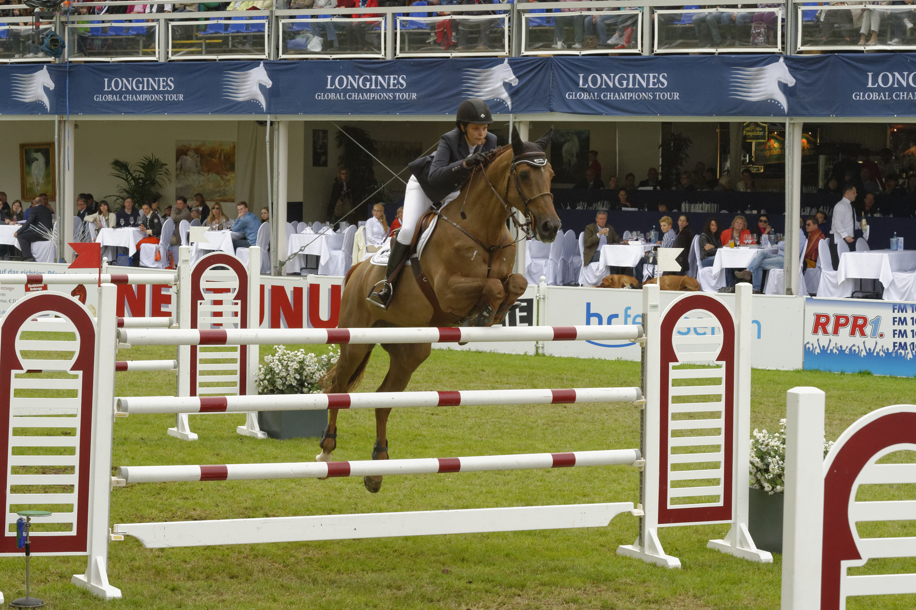 Internationales Pfingstturnier Wiesbaden 2013: Athina Onassis de Miranda mit Babouche The making of this document was supported by the Community-Budget of Wikimedia Germany.